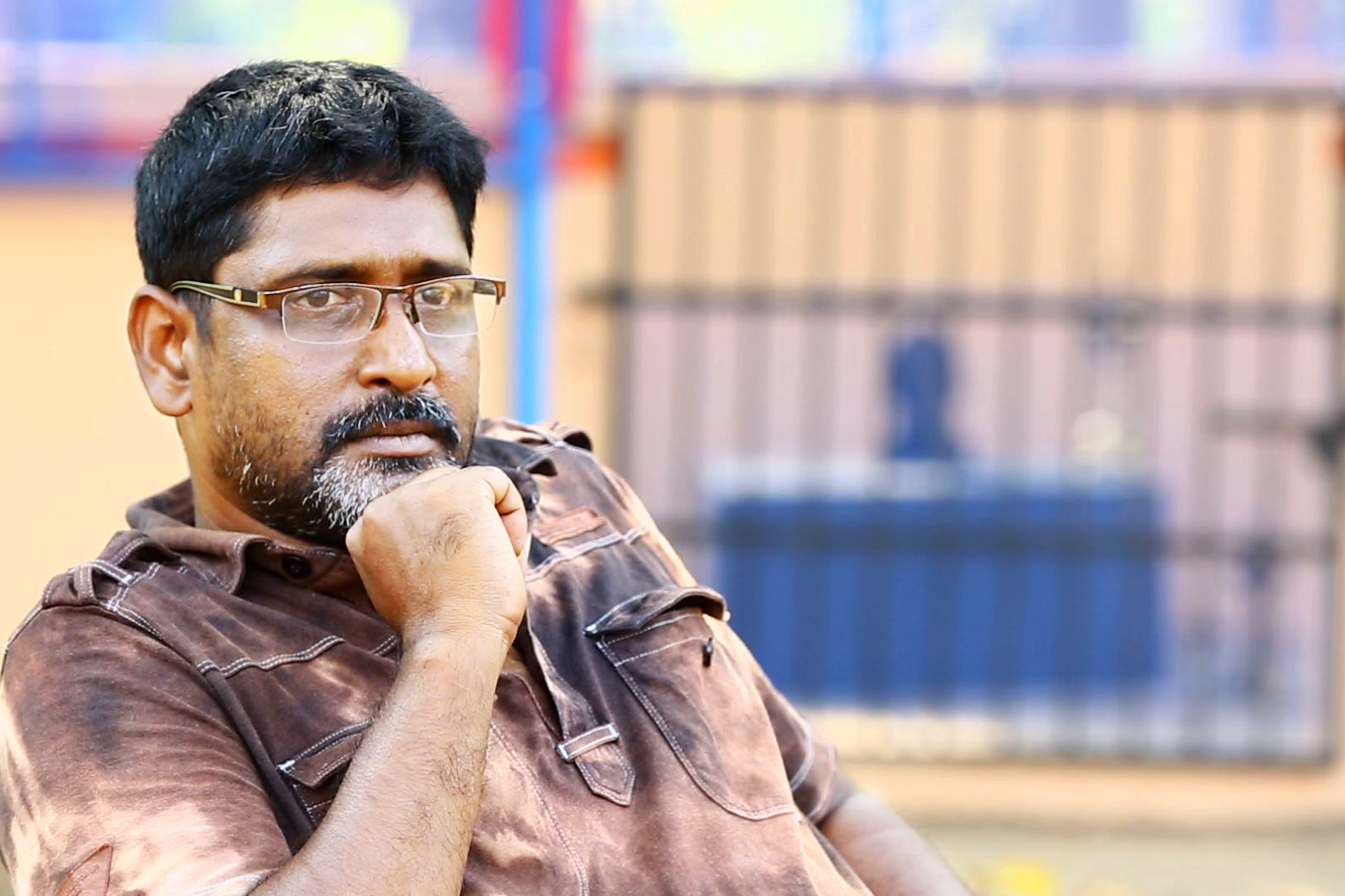 Laloorinu Parayanullathu documentary film director Sathish Kalathil-1